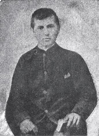 Portrait of IMARO member Lecho Nastev